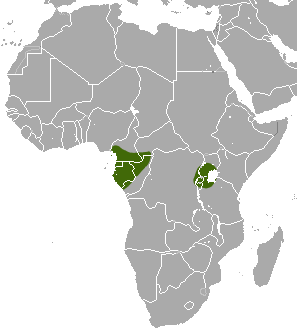 Johnston's Forest Shrew (Sylvisorex johnstoni) range